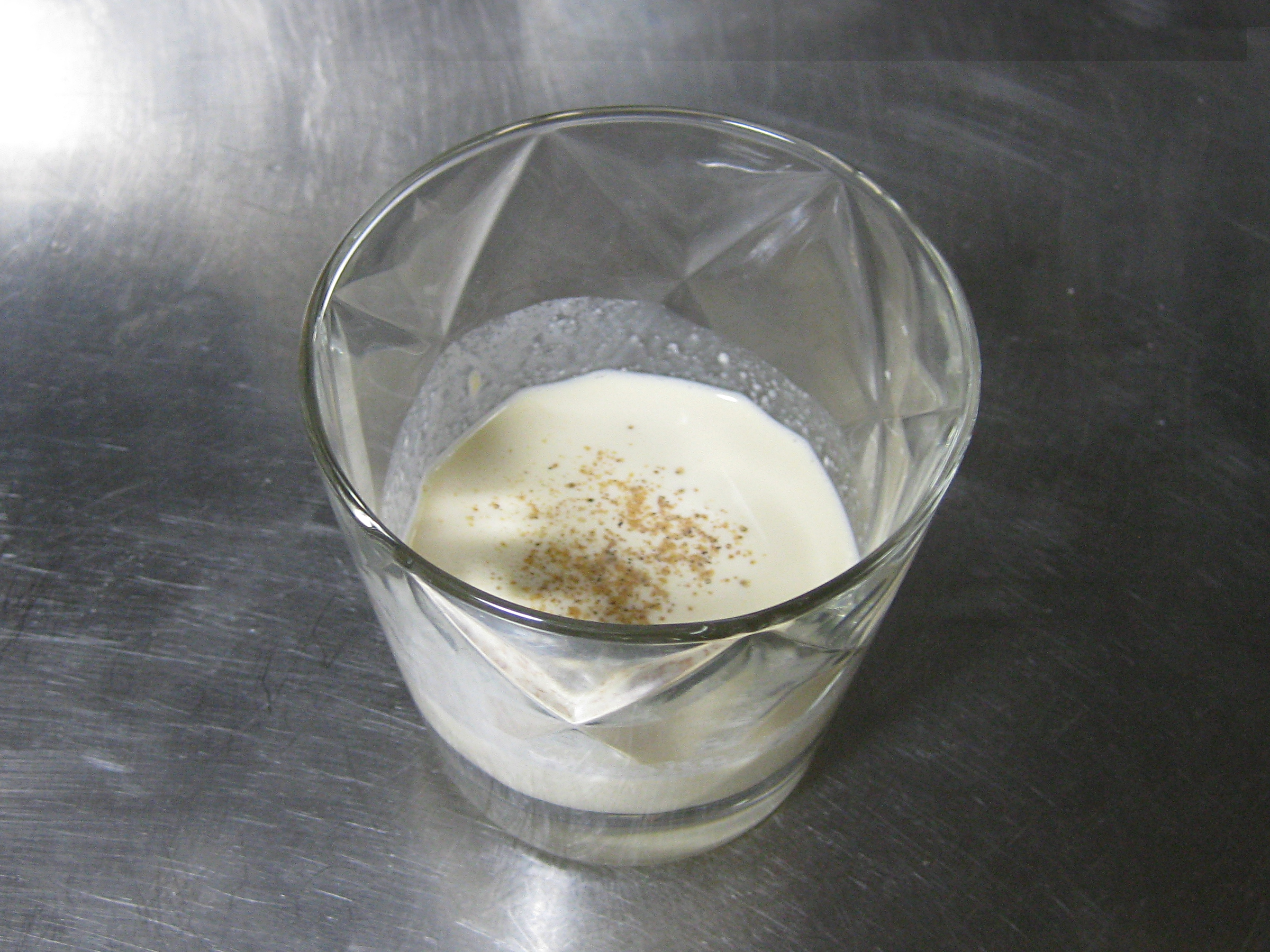 A glass half full of eggnog sprinkled with nutmeg. The glass is resting on a metallic counter top.